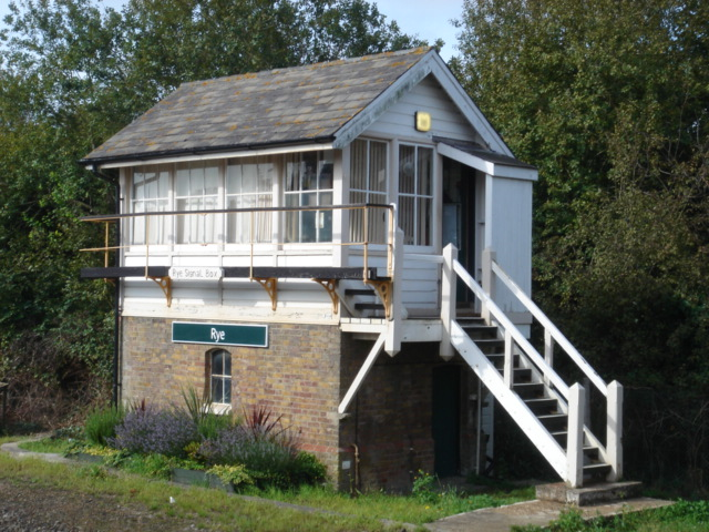 Signal box at Rye railway station. Photographed on en:30 September en:2007.